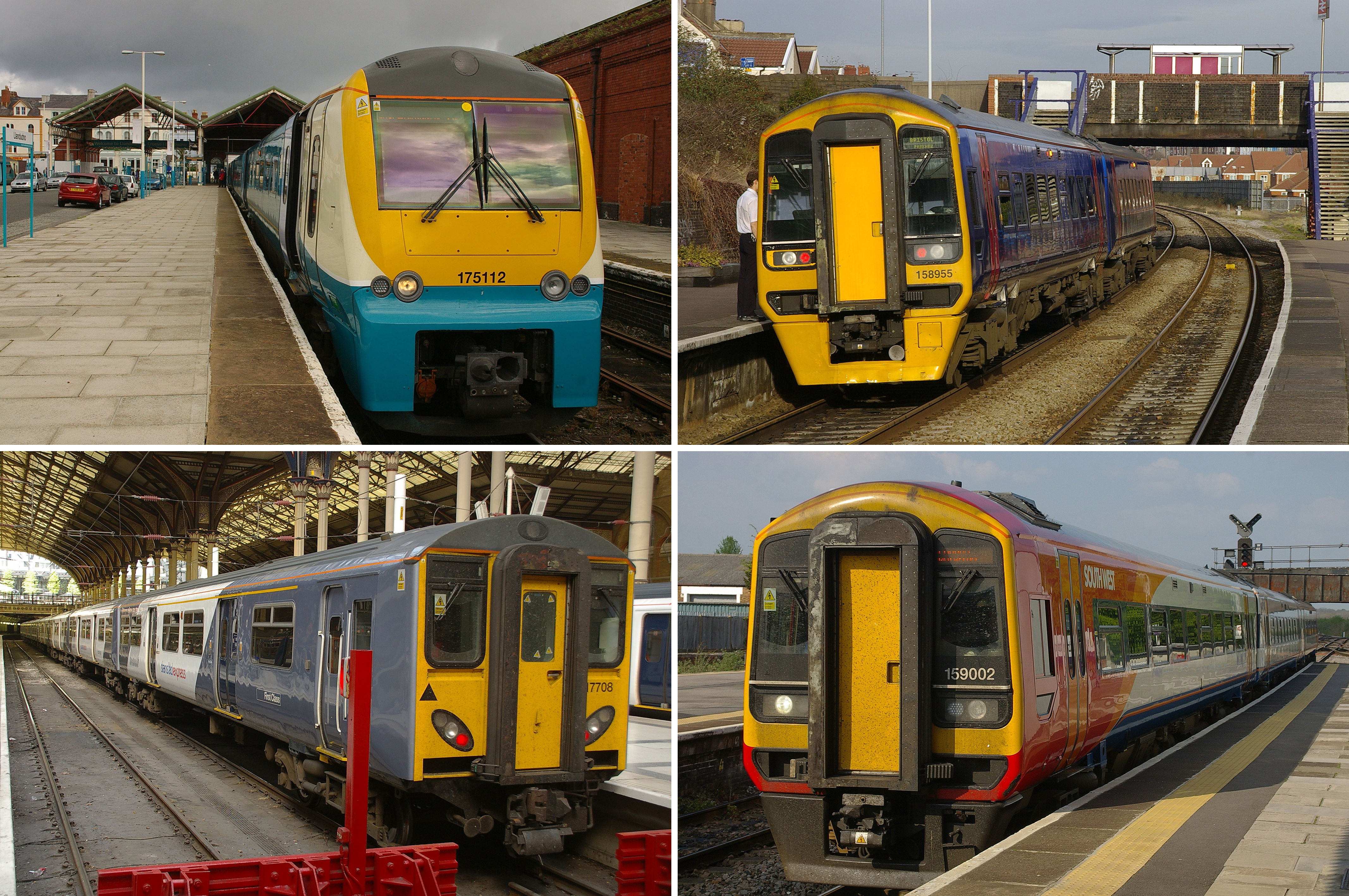 Collage of four train images, to represent the different companies bidding to become the new holder of the Greater Western passenger franchise from 2013. Clockwise from top left: Representing Deutsche Bahn, Arriva Trains Wales class 175 Coradia unit 175112 at Llandudno, 3 September 2009, 13:10 Representing First Group, First Great Western class 158 Express Sprinter unit 158955 at Parson Street, 16 February 2009, 15:36 Representing Stagecoach Group, South West Trains class 159 South Western Turbo unit 159002 at Westbury, 20 April 2009, 16:37 Representing National Express, National Express East Anglia class 317 unit 317708 at London Liverpool Street, 18 August 2009, 15:14